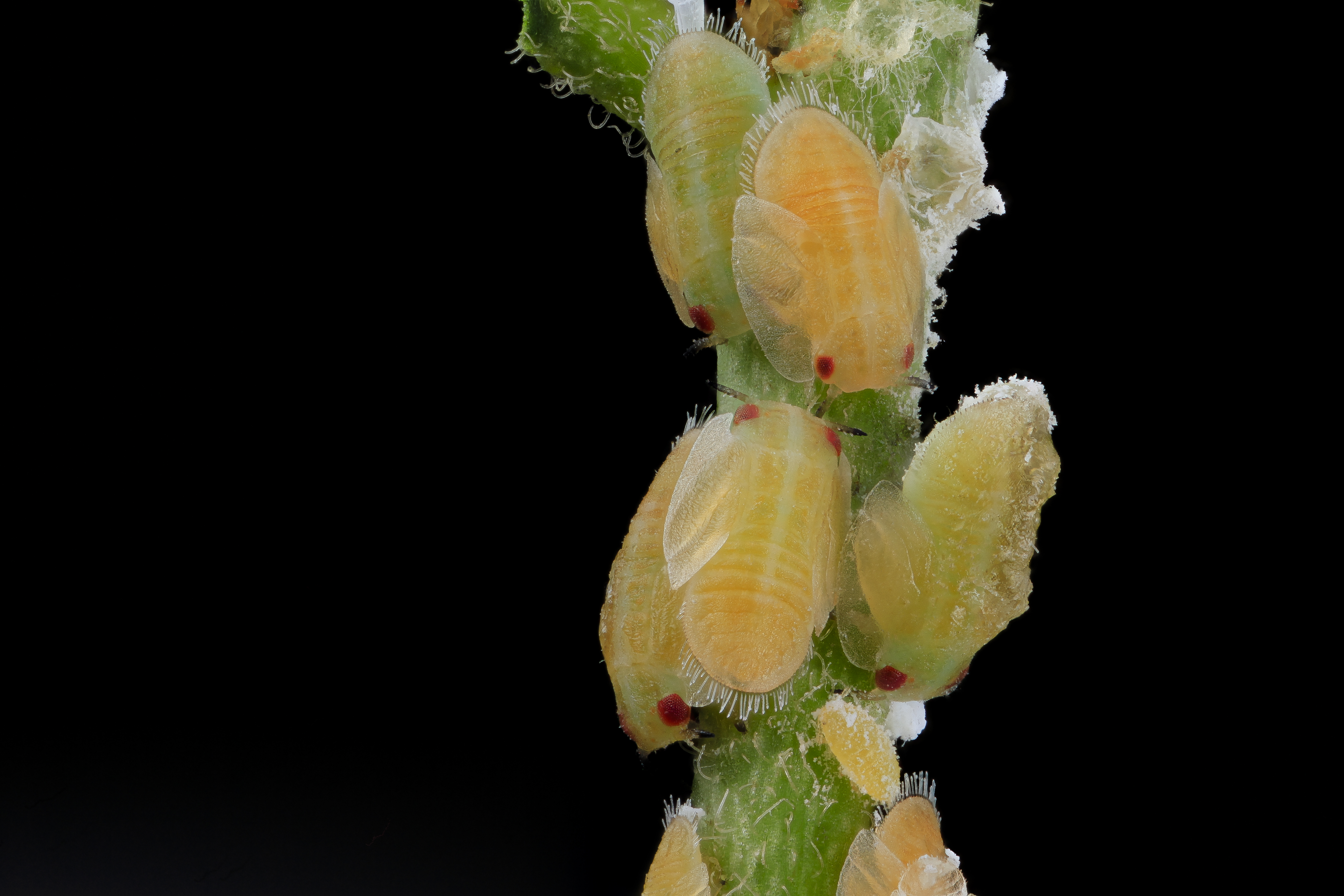 A series of shots of Citrus Psyllid adults (including a recently emerged white adult) , and larvae of Diaphorina citri which is the transporting agent of citrus greening disease now devastating Florida's orange groves. Pictures taken at Level 3 level quarantine at USDA's Lab at Ft. Detrick, Maryland. Thanks to Tina Paul for fascilitating all of this. One of the larval pictures just made it into the October Nat Geographic Magazine. Those are acupuncture pin the psyllid is taken on...tiny beasts. Diaphorina_citri